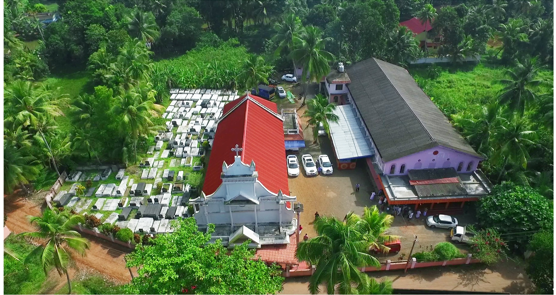 St pauls Martthoma church helicam view